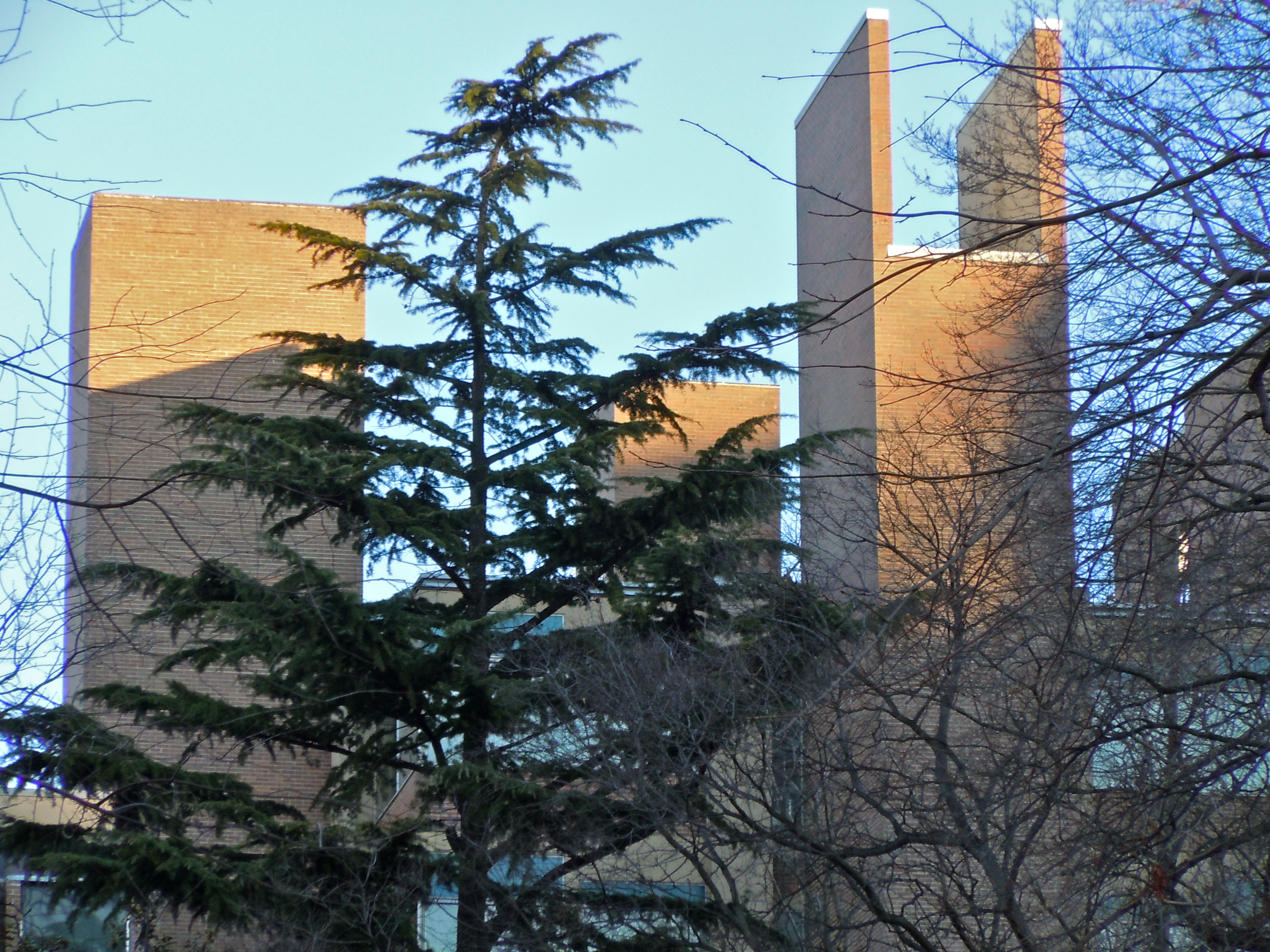 Tops of towers at Richards Lab from south (note that there are many trees and a garden to the south of the building). One tower for ventilation (on left) and the other type for stairways (on right)